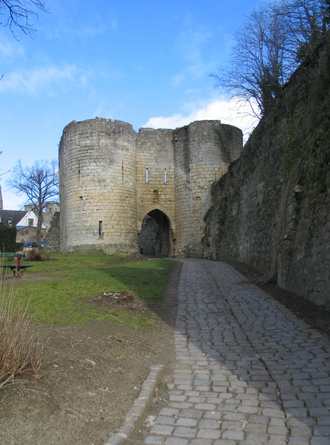 Porte de Soissons in Laon - own work - - created by Paul Hermans